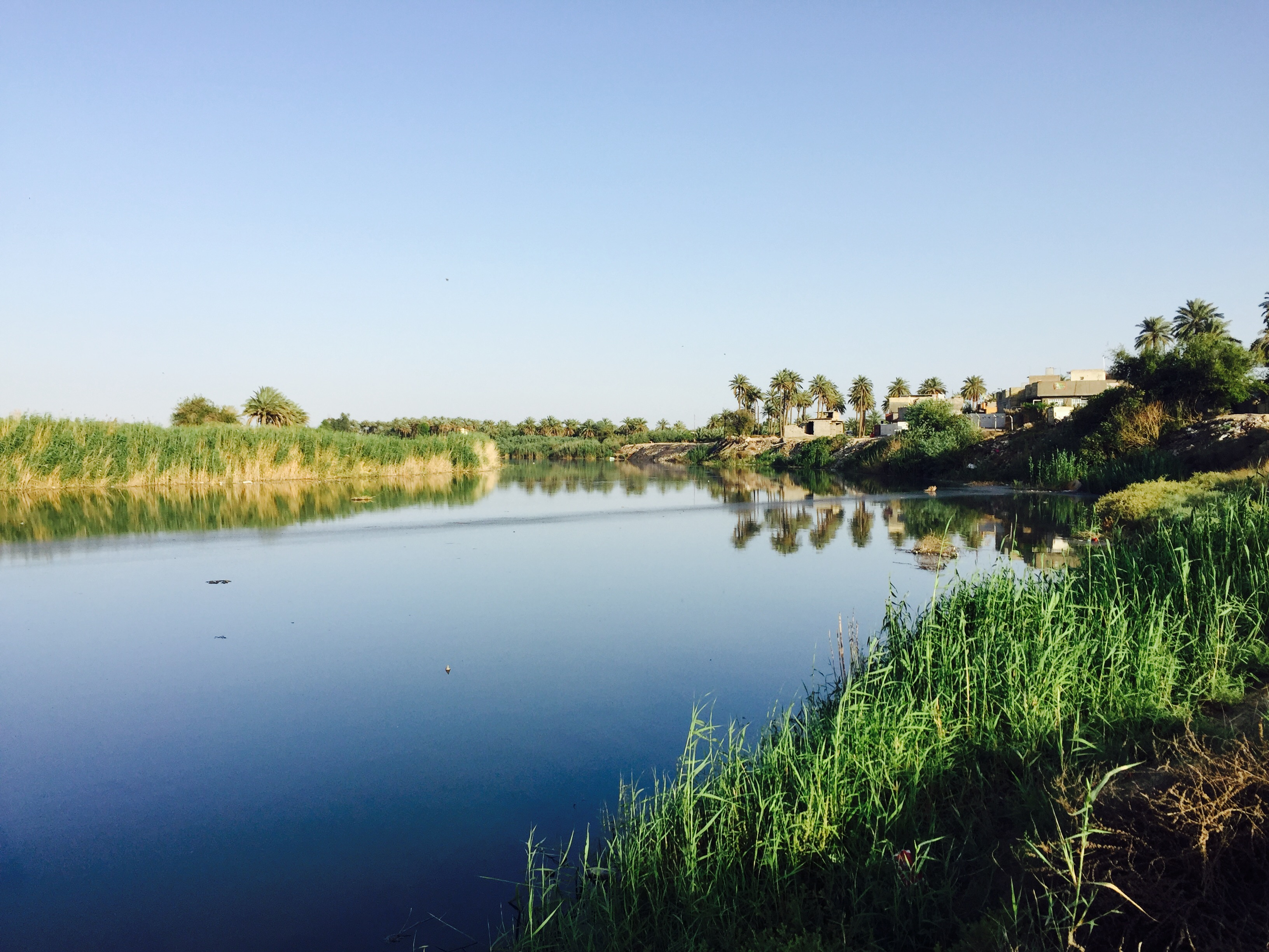 Diyala River in Baghdad, Iraq